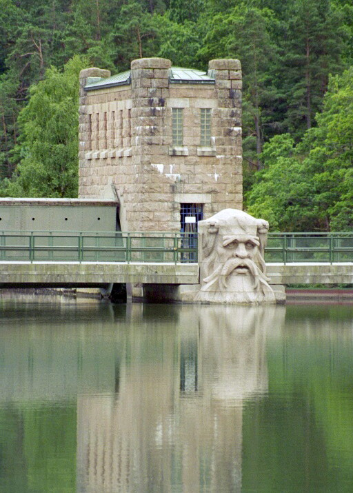 Carl Eldhs skulptur The Nix at Strömkarlsbron in Trollhättan.